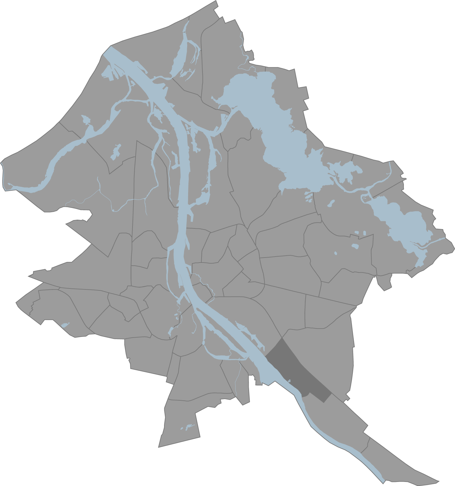 A map of Riga, Latvia with the eponymous commune highlighted